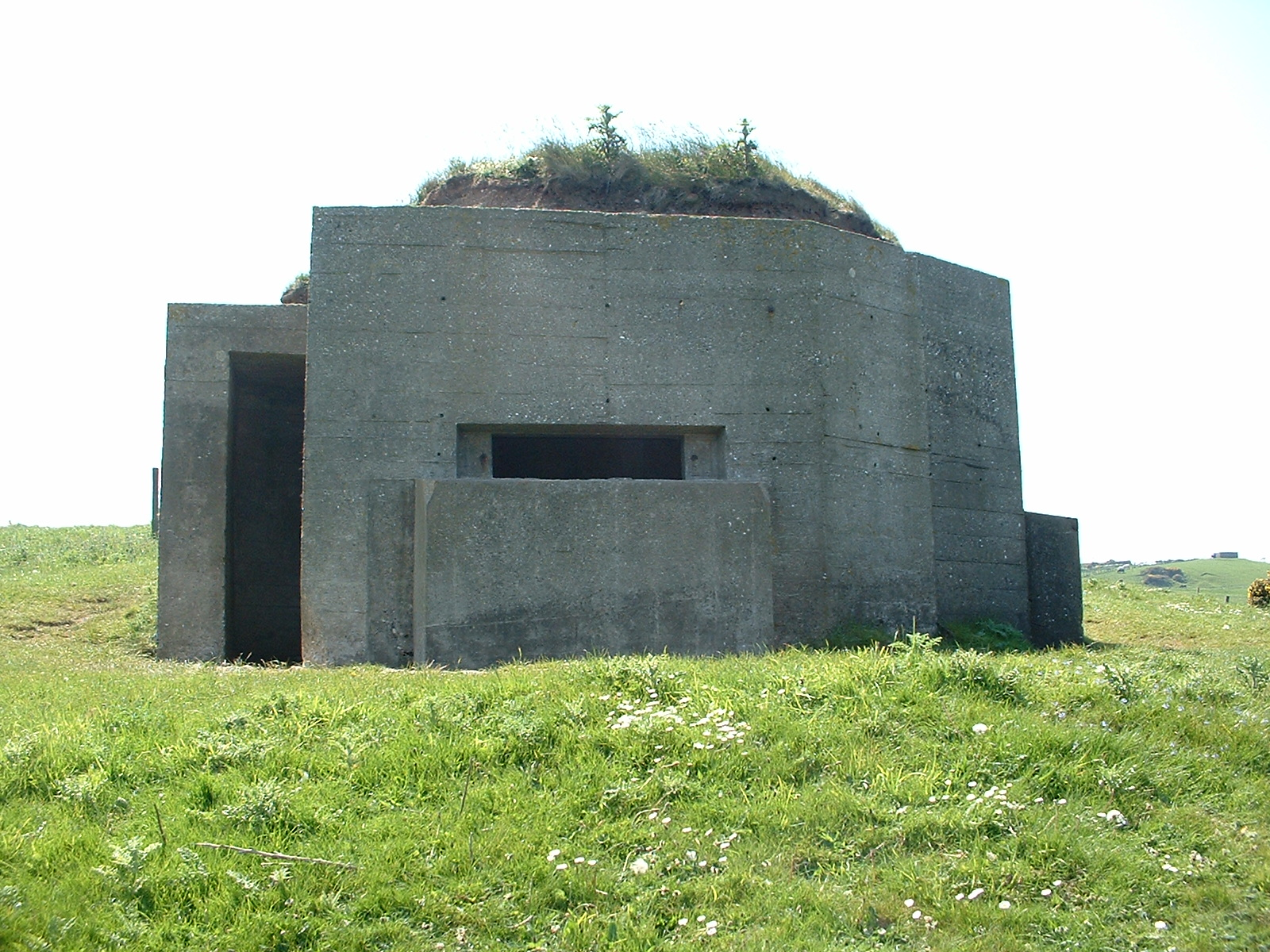 Section drawing of pillbox of this type Pillbox - Type Eared, Speeton, OS reference TA150750 On privately owned pasture. Accessible from public footpath. Photographed by Gaius Cornelius on 07-Jun-06. OS reference TA150750